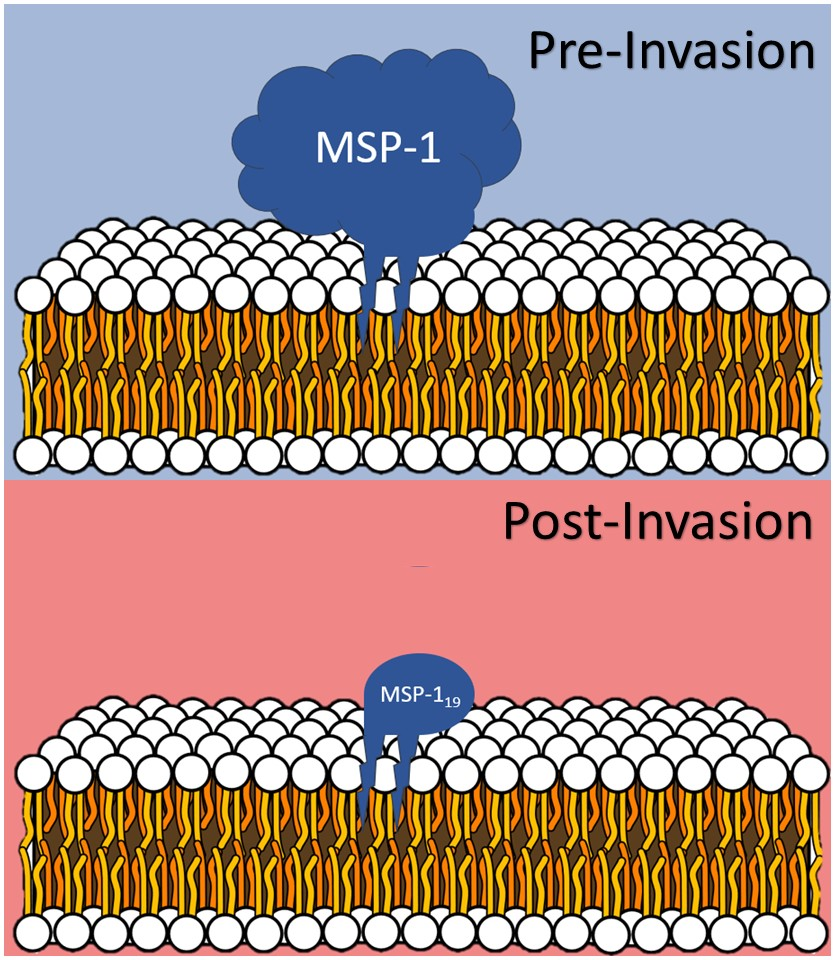 A simple diagram showing the MSP-1 complex anchored to the merozoite cell membrane. The staggered lines indicate the GPI-anchor. This diagram's purpose is to demonstrate the location of MSP-1(19) after red blood cell invasion.